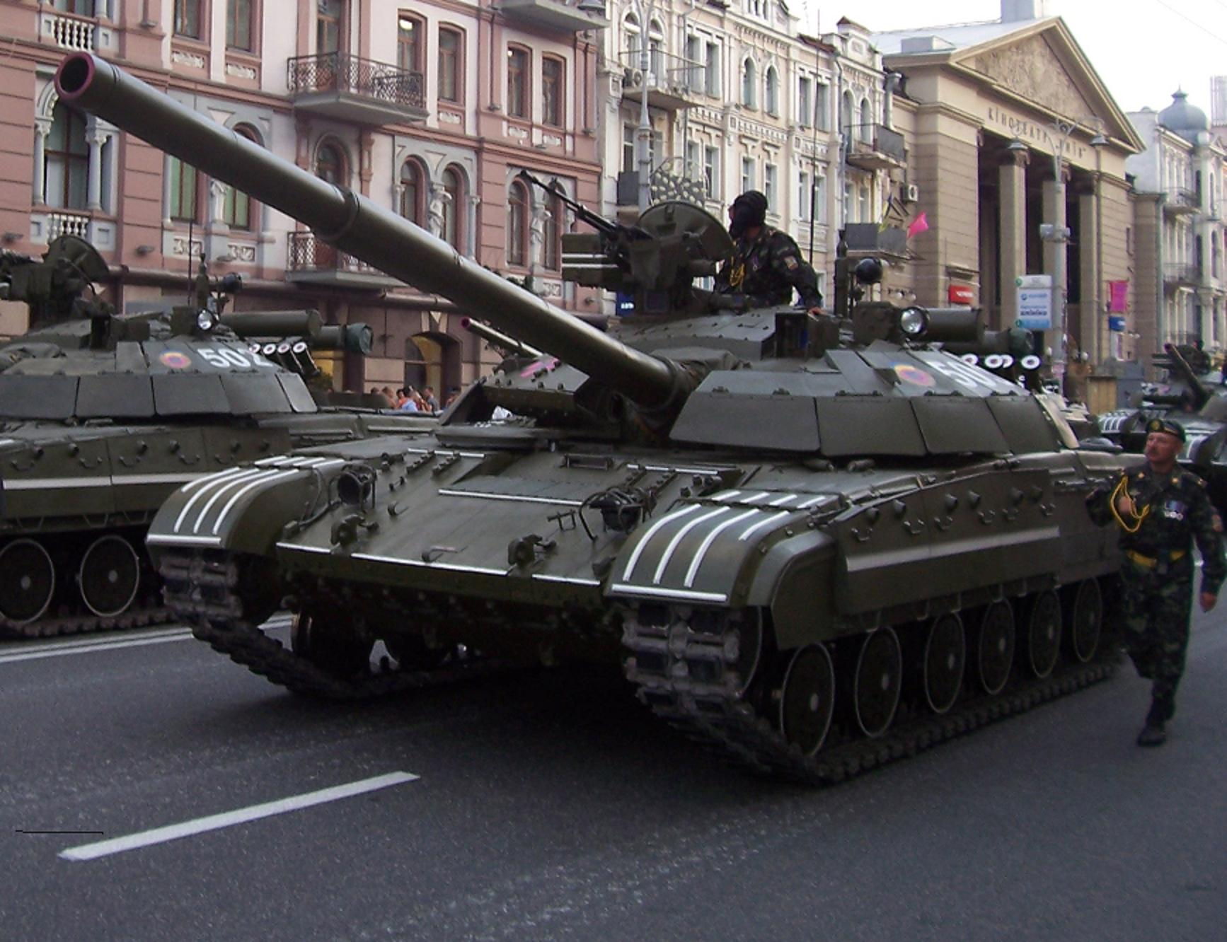 Ukrainian T-64 BM "Bulat"s on a rehearsal parade for independence day.